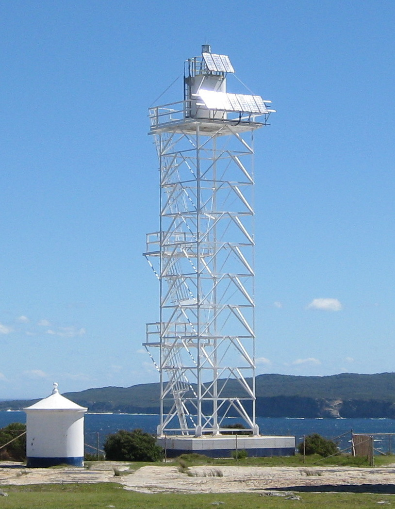 Point Perpendicular Light, skeletal tower